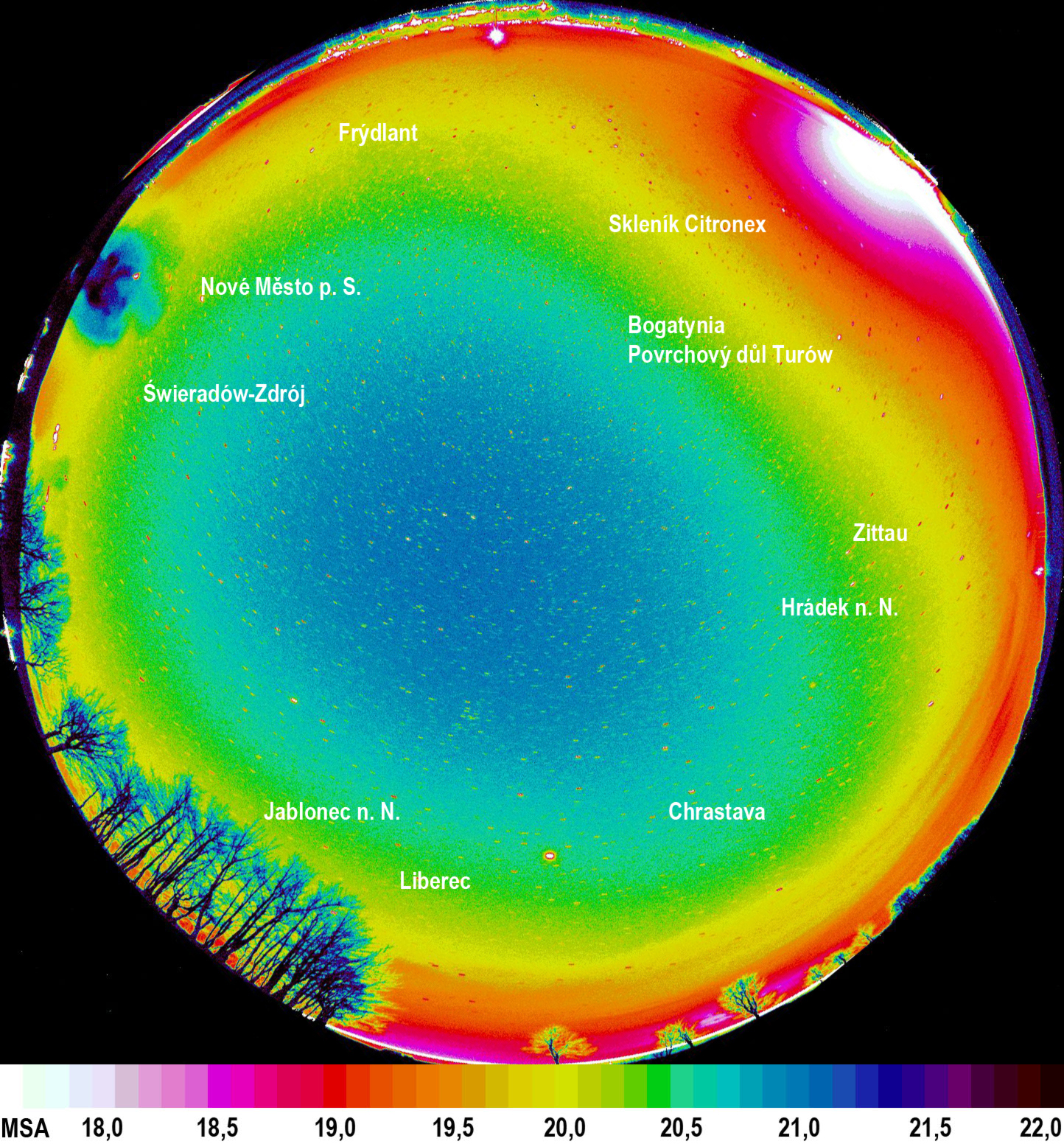 All sky map of night sky brightness with polish greenhouse Citronex, Albrechtice, Czech republic, 07. 02. 2016